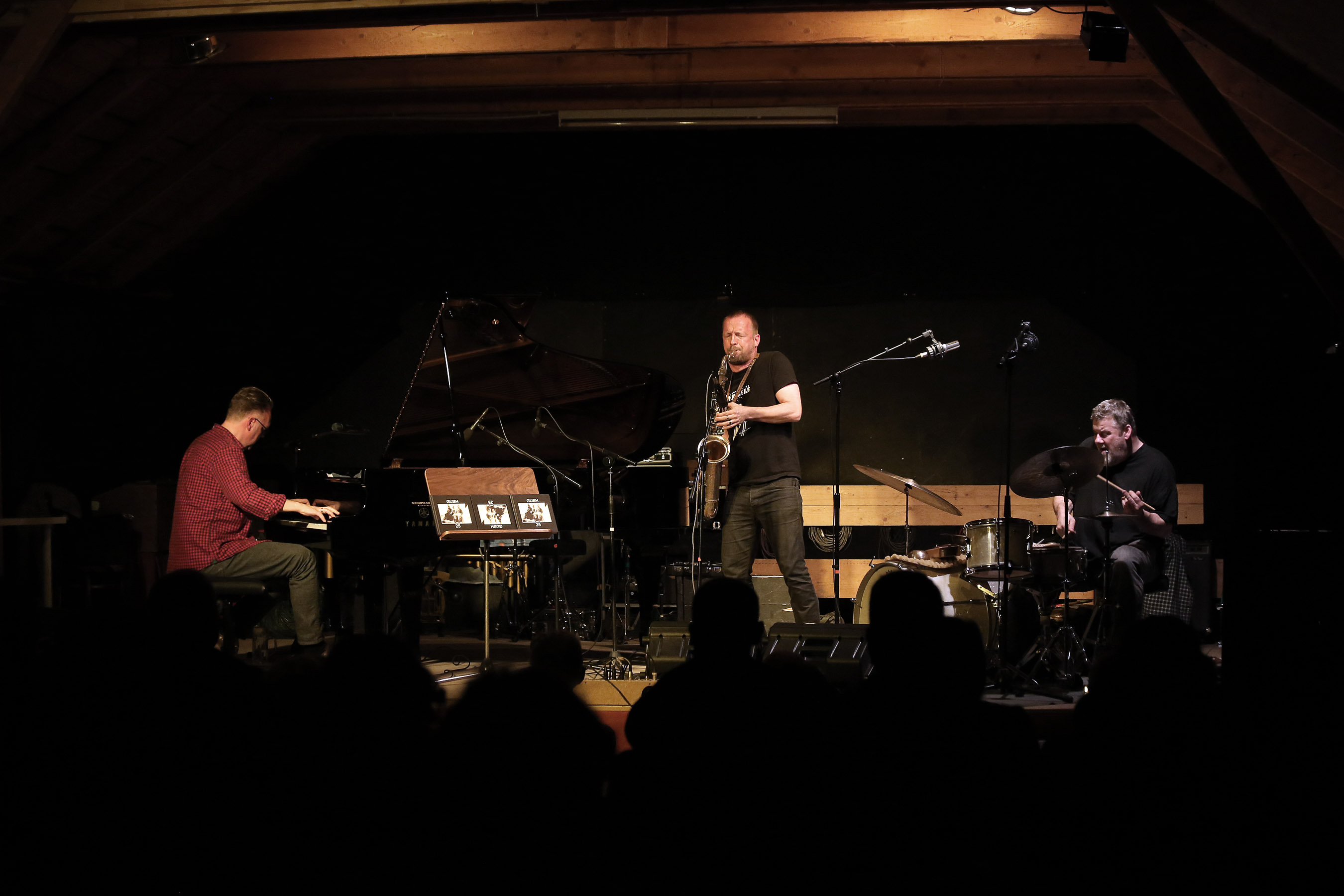 GUSH - Mats Gustafsson, Sten Sandell, Raymond Strid - Ulrichsberger Kaleidophon (Ulrichsberg, Upper Austria)